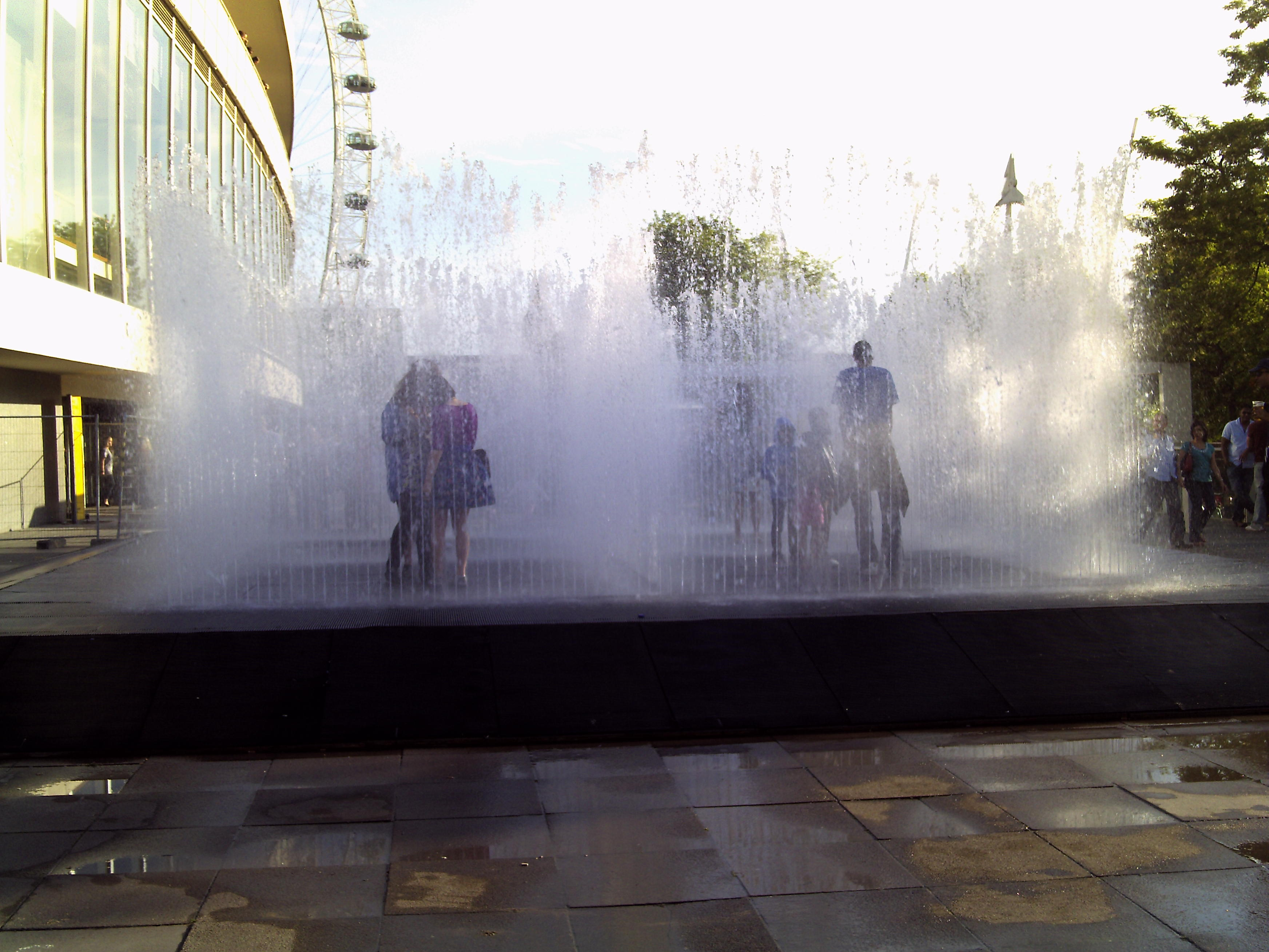 Appearing Rooms by Jeppe Hein; outside the Royal Festival, Southbank Centre, London.